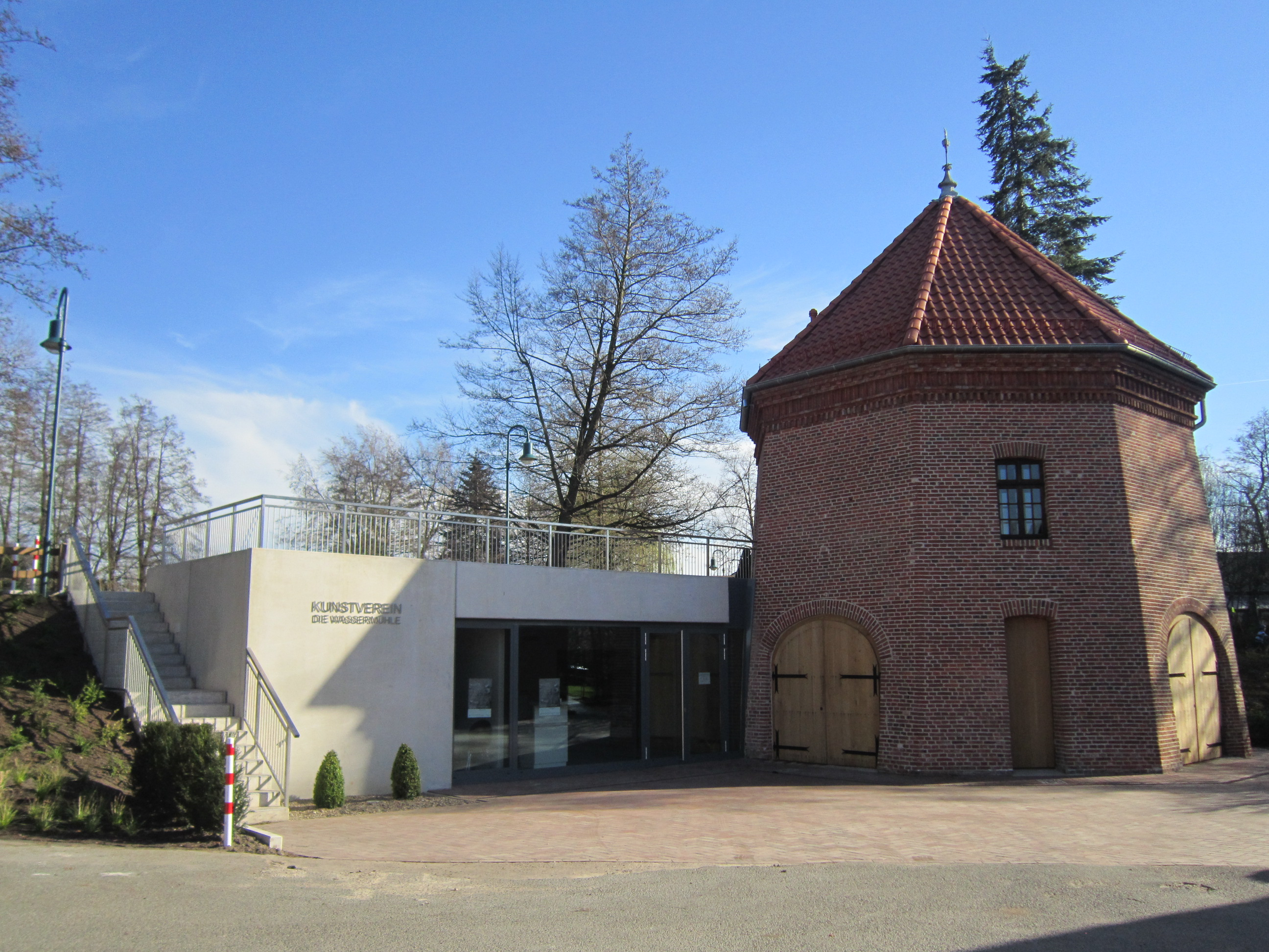 Watermill "Pastoratsmühle" in Lohne (Oldenburg); resdience of the "Kunstverein Die Wassermühle Lohne"